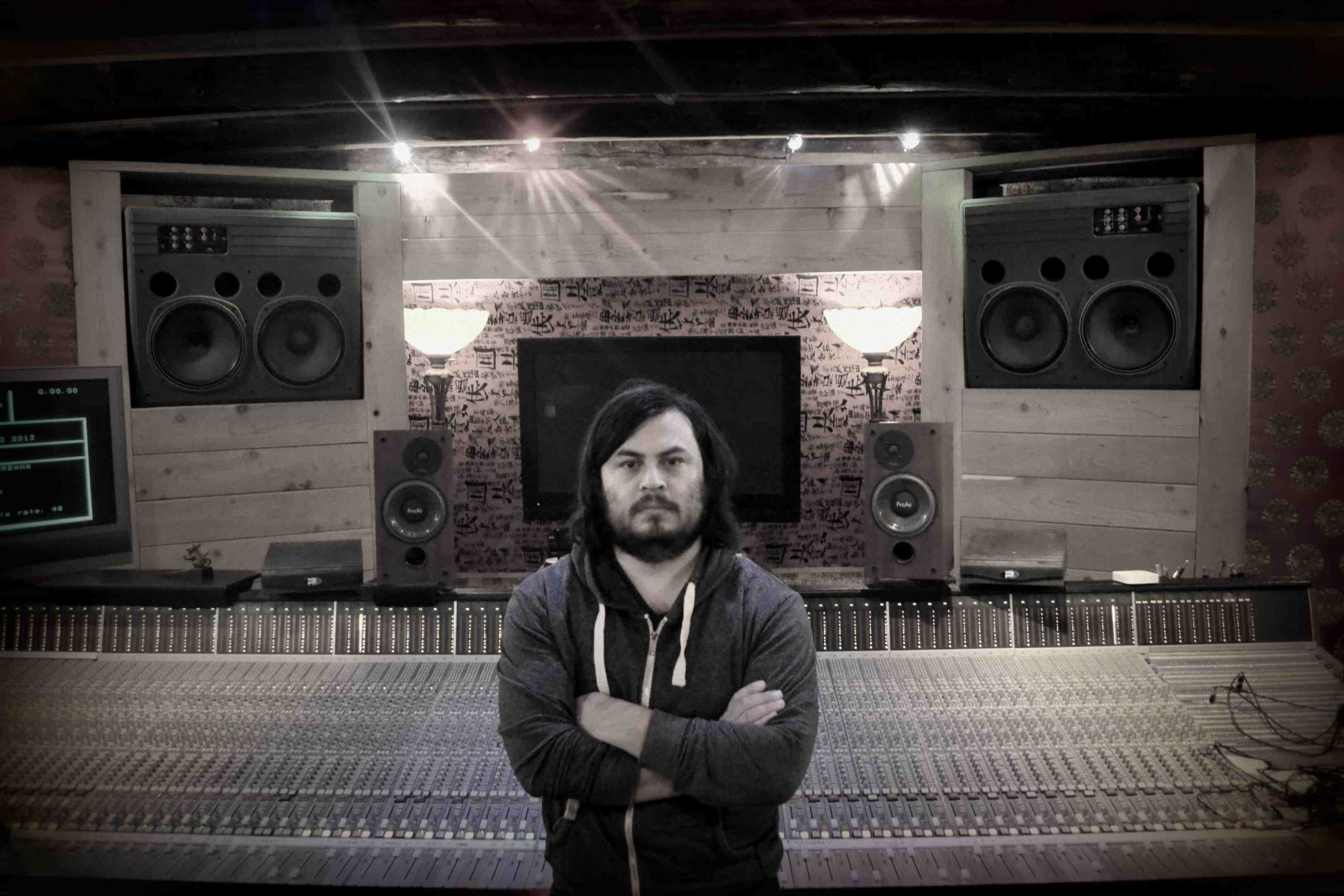 At Sonic Ranch Recording Studios in Tornillo, Texas